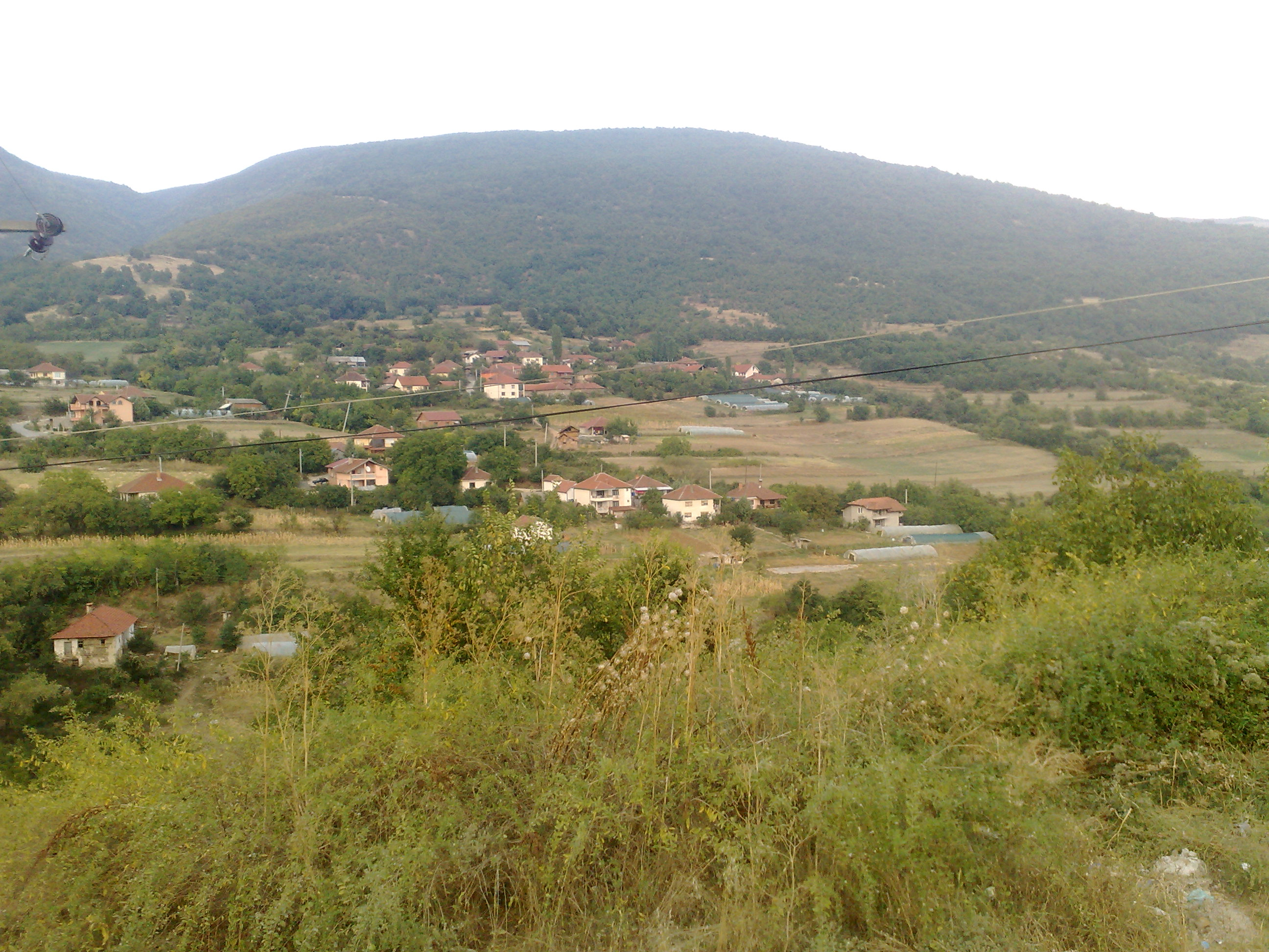 village of Bulachani, near Skopje, Macedonia